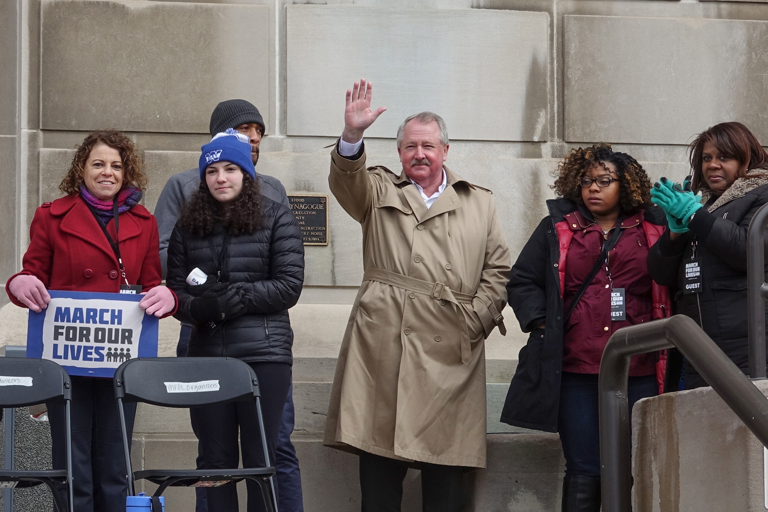 Elected officials and candidates for political office lent their support to March for Our Lives - Rebecca Dallet, Mandela Barnes, and LaTonya Johnson, among others.